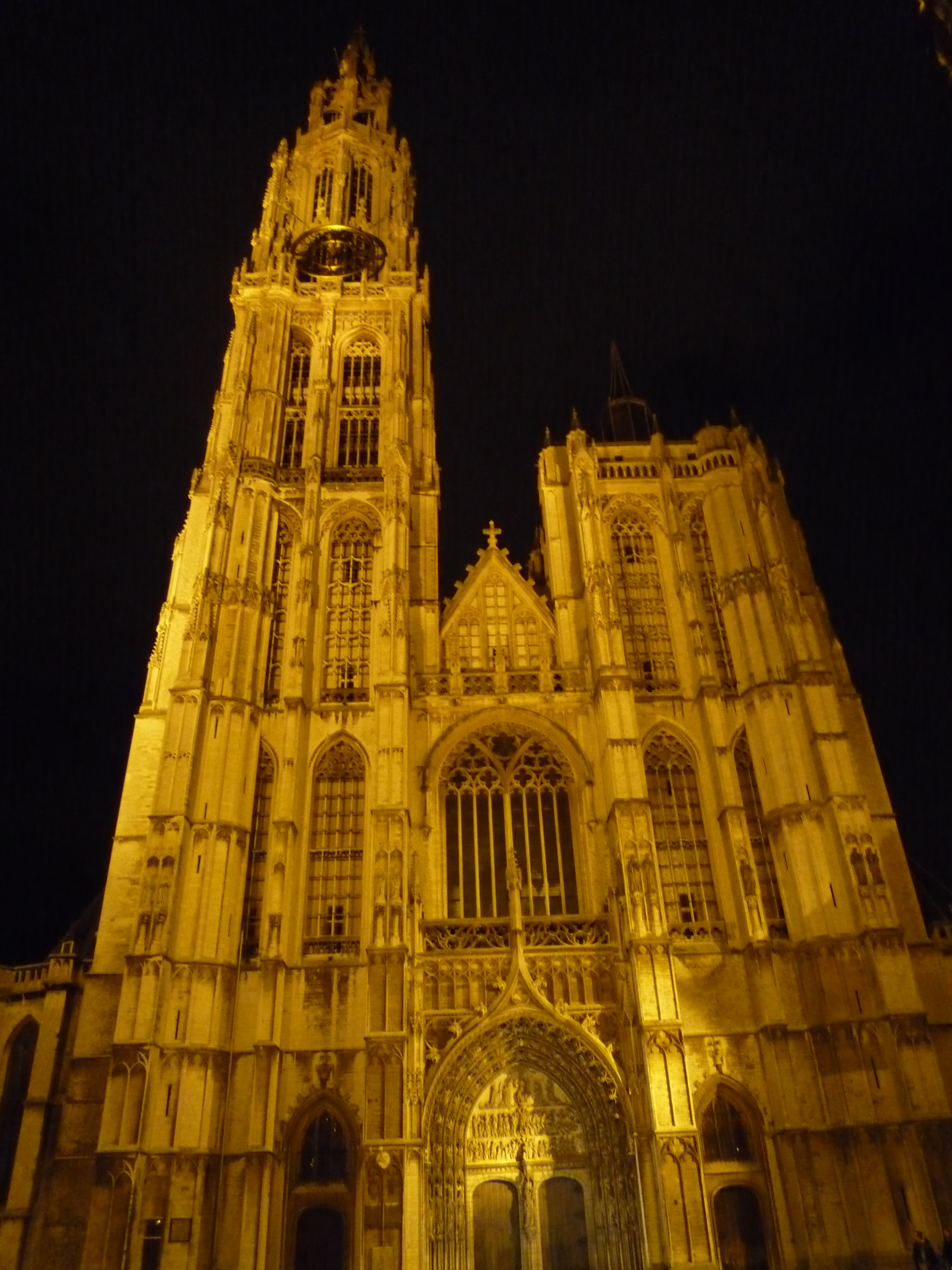 Antwerpen's cathedrale